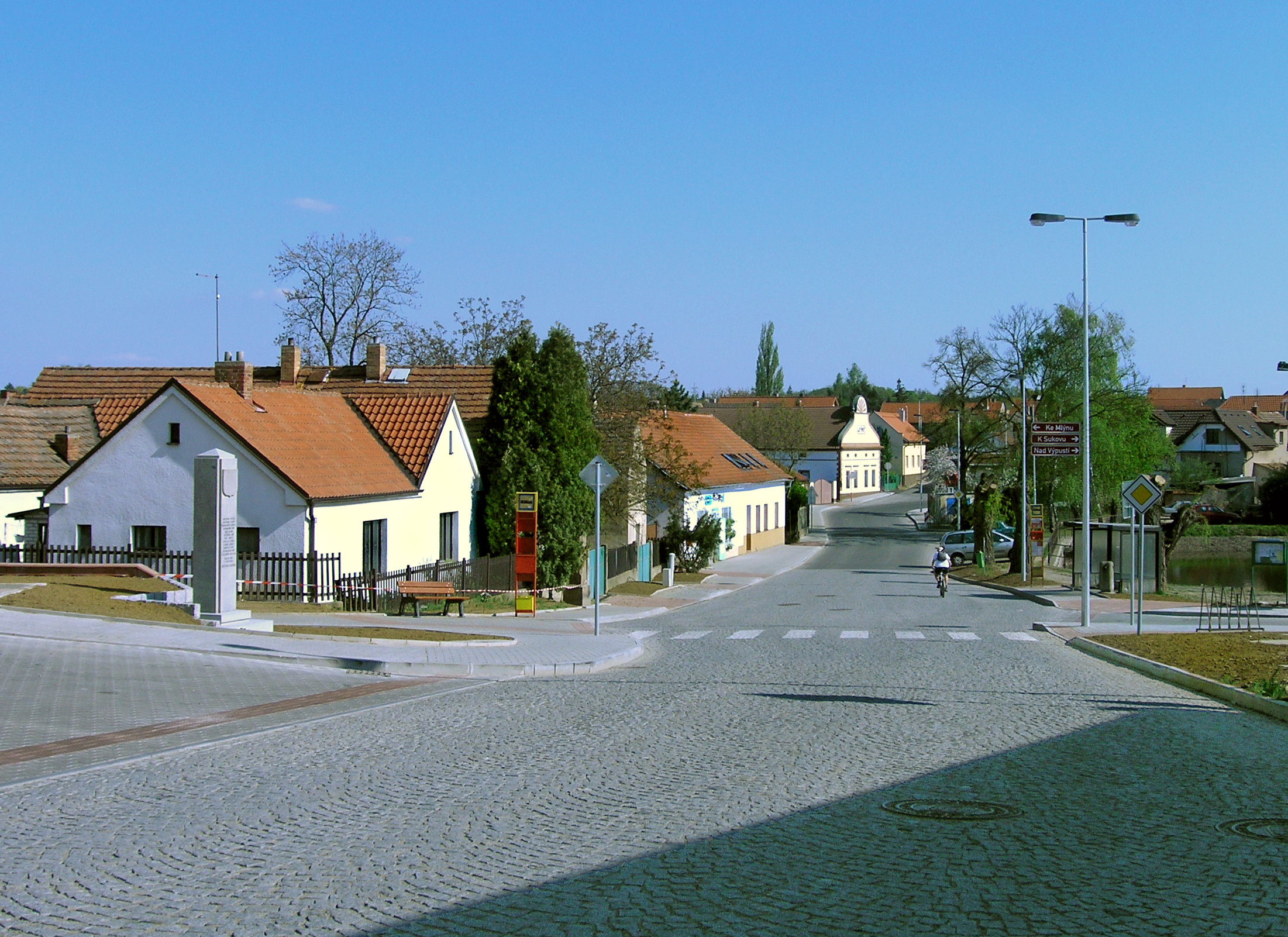 Common at Újezd u Průhonic, Prague